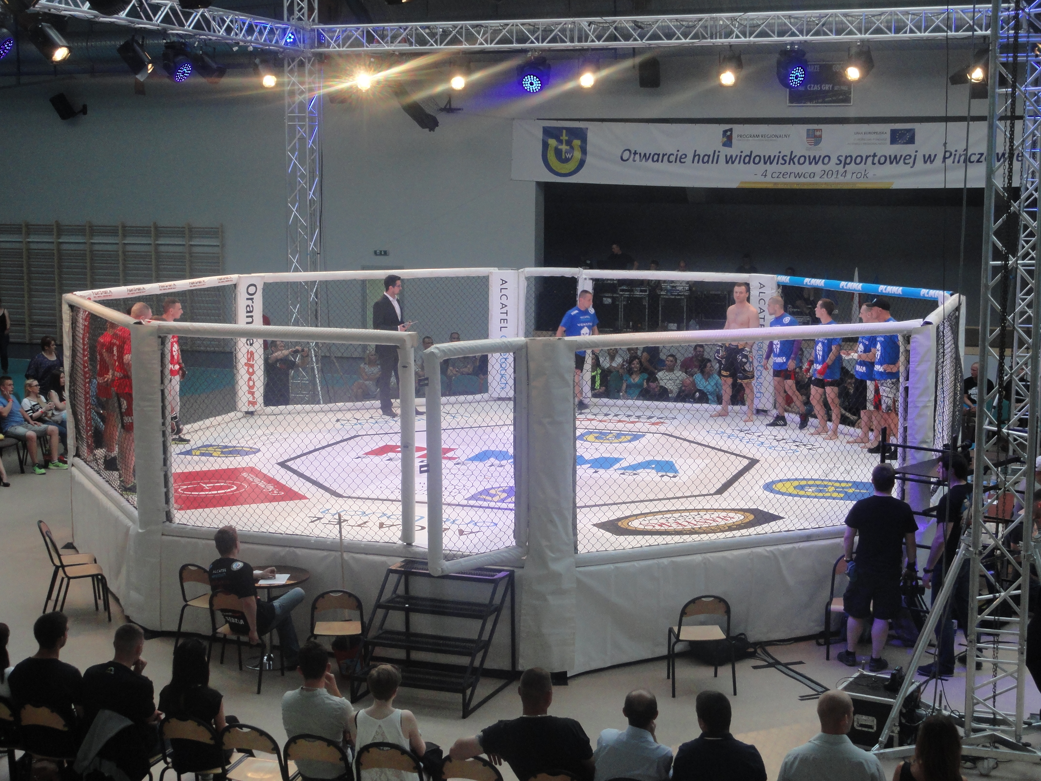 Beginning of the MMA event - PLMMA 35 (Professional League of MMA) in Pinczow